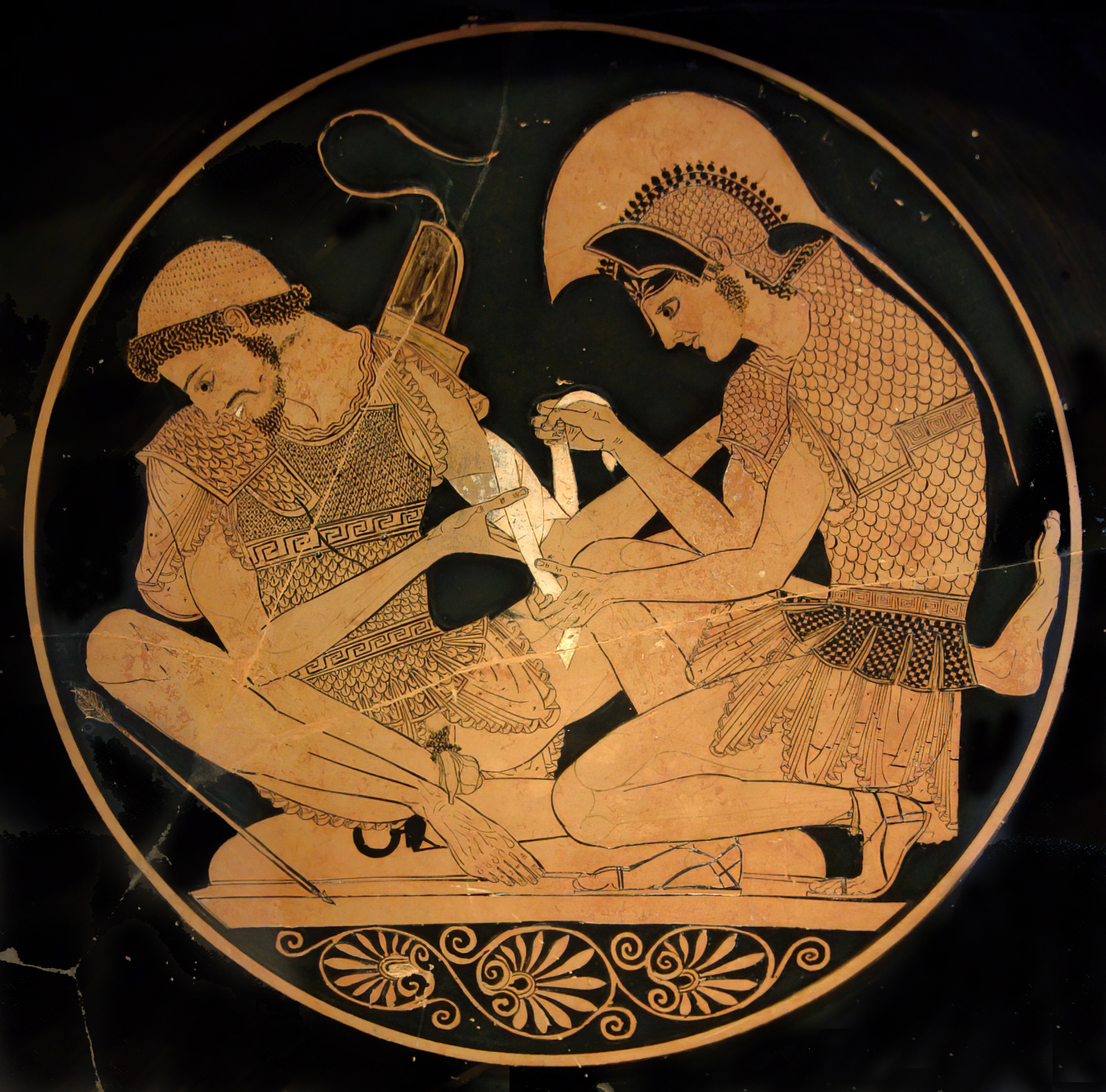 Achilles tending Patroclus wounded by an arrow, identified by inscriptions on the upper part of the vase. Tondo of an Attic red-figure kylix, ca. 500 BC. From Vulci.